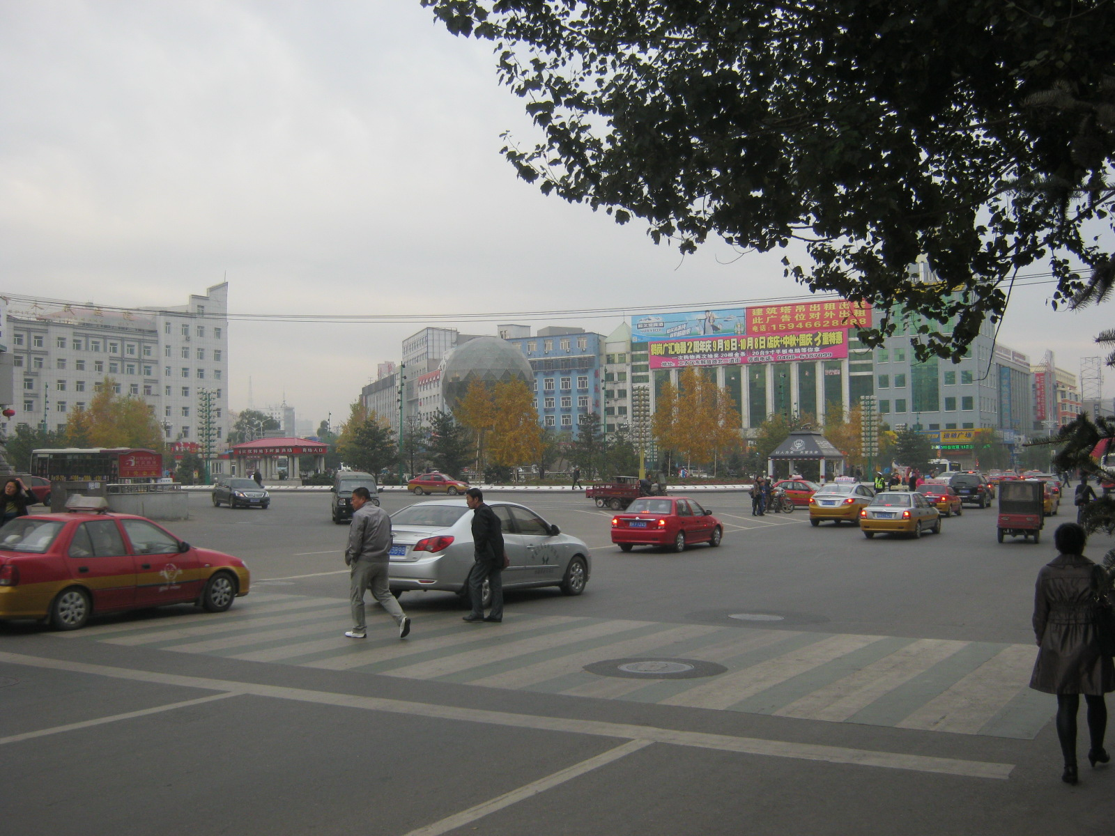 Hegang